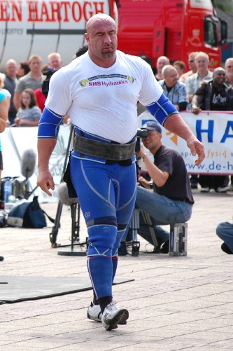 Simon Sulaiman - a strength athlete from the Netherlands.